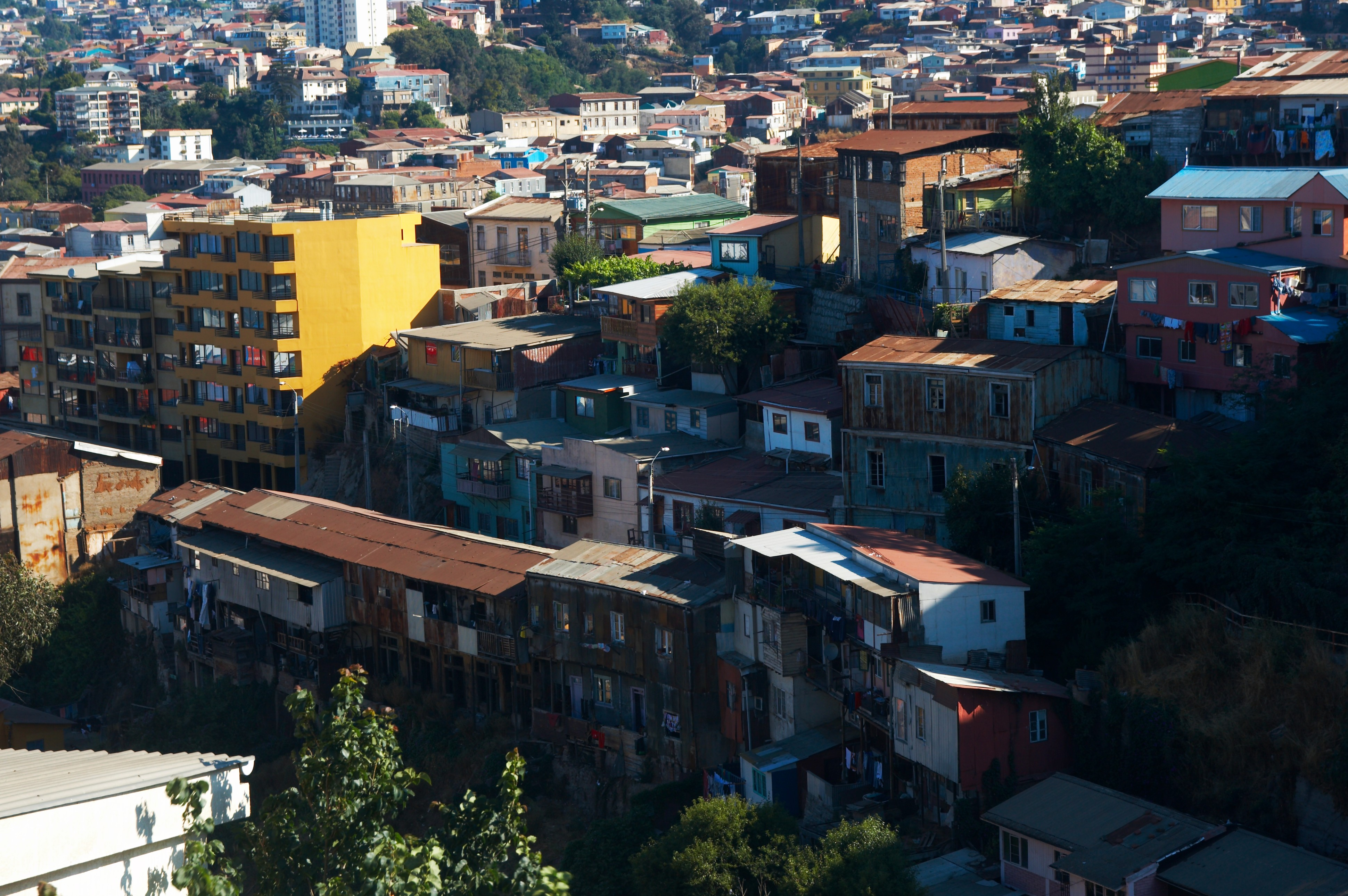 Valparaíso, Chile.